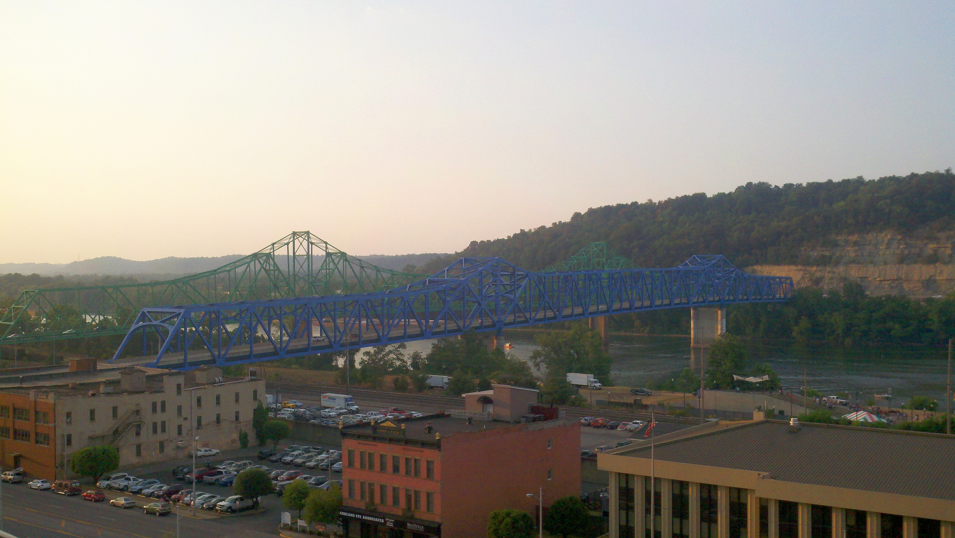 Photo of the Ben Williamson Memorial Bridge (green bridge) and Simeon Willis Memorial Bridge (blue bridge) in Ashland, Kentucky.